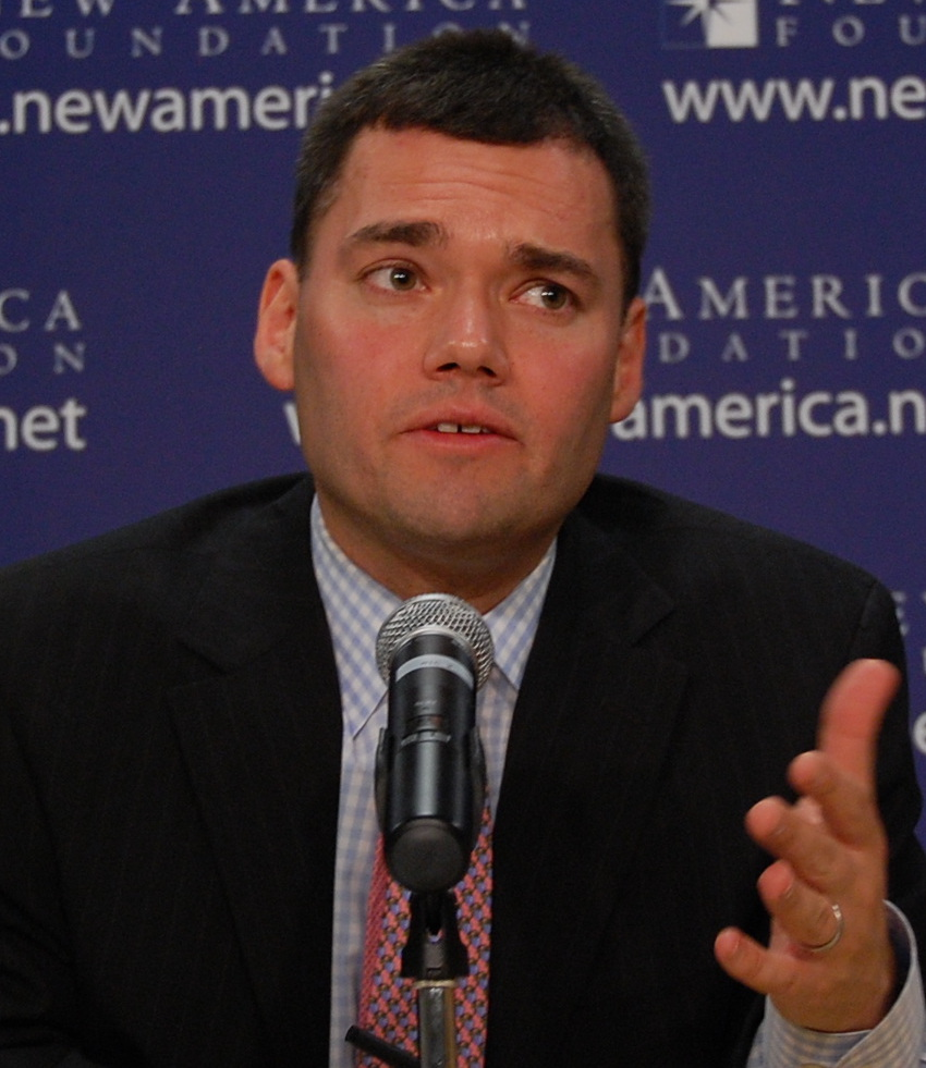 Cropped headshot of Peter Beinart